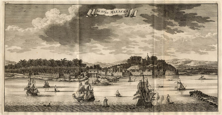 Malakka from Valentijn, De Stad Malacka, from Oud en Nieuw Oost Indien. 1724-26.